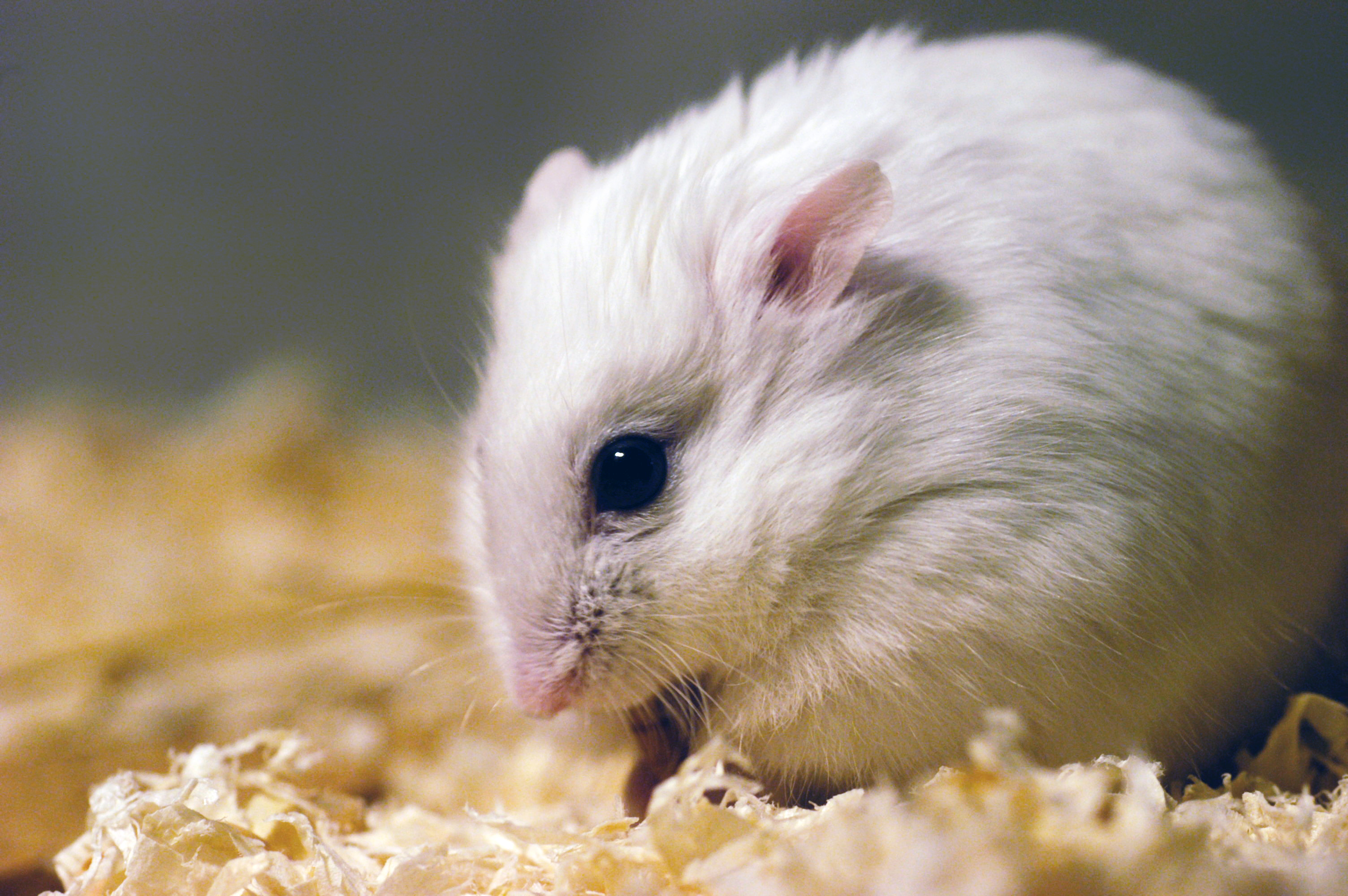 Winter White Russian Dwarf Hamster, colour «Pearl»